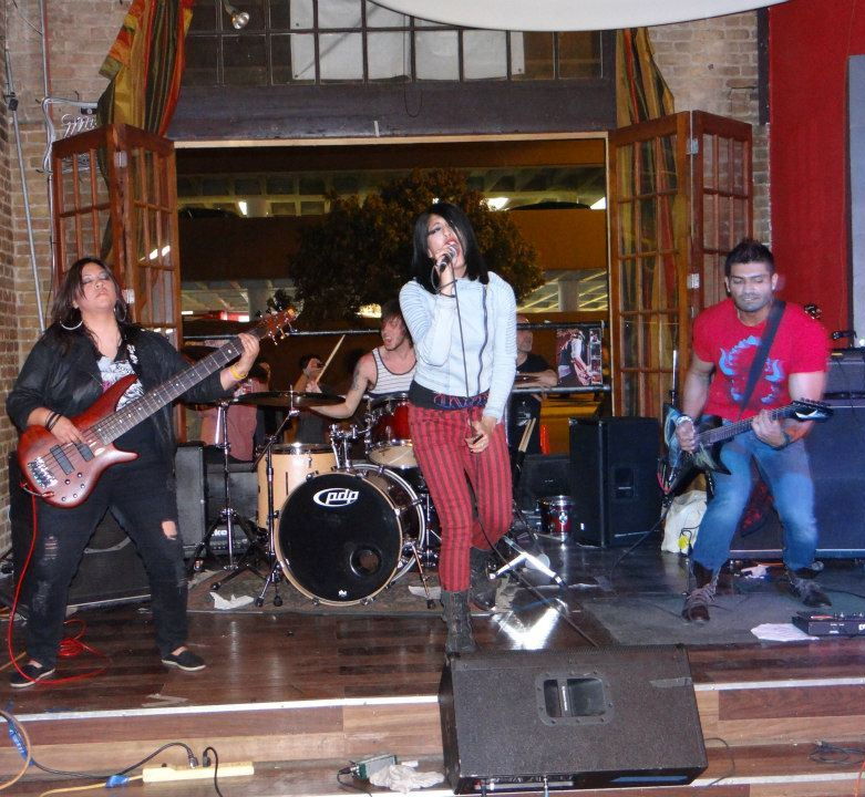 Waco rock band Beautiful Disturbance performing at South by Southwest music festival 2013